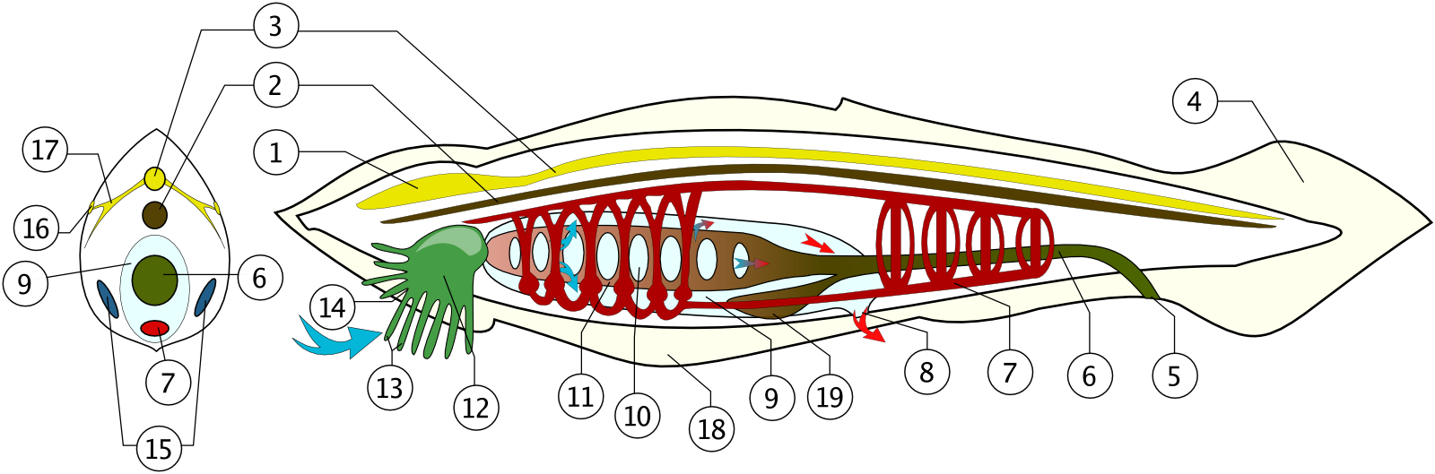 Lancelet's anatomy scheme